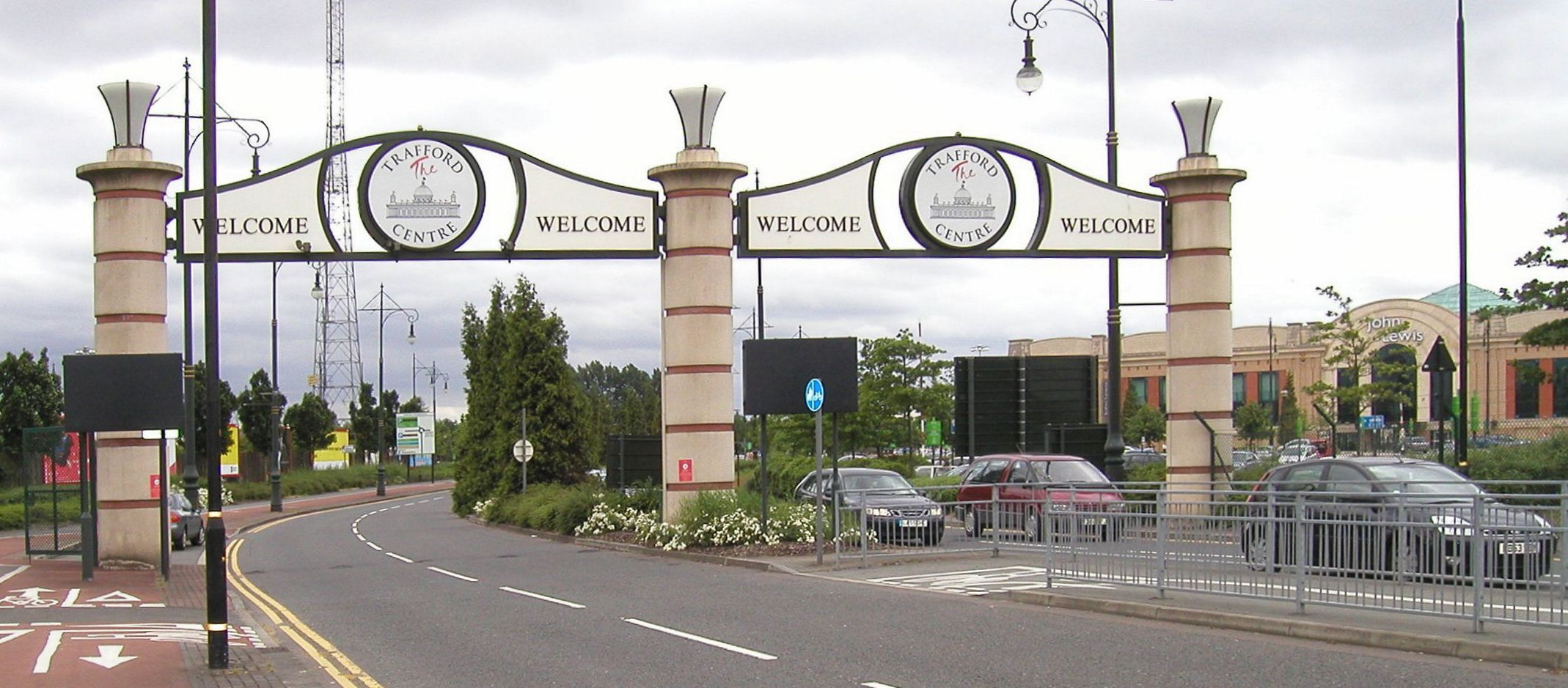 Welcome signs at the entrance to the Trafford Centre